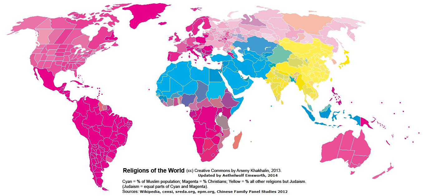 Map showing the distribution of world religions by country/state, and by smaller administrative regions for the largest countries (China, India, Russia, United States). % of MAGENTA stands for nominal adherents of Christianity, % of CYAN stands for nominal adherents of Islam, % of YELLOW stands for nominal adherents of Buddhism, Chinese religions, Hinduism and indigenous religions.